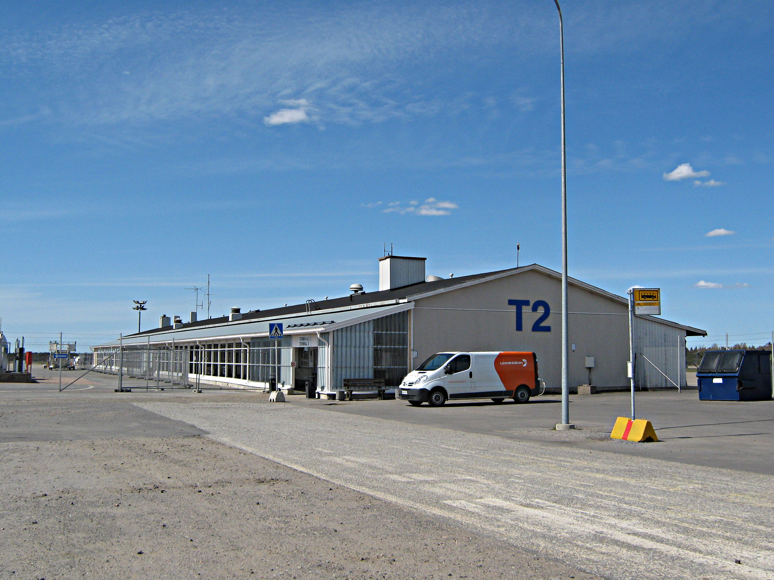 Turku Airport Terminal 2